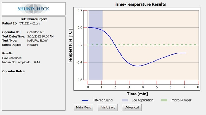 Wiki graph